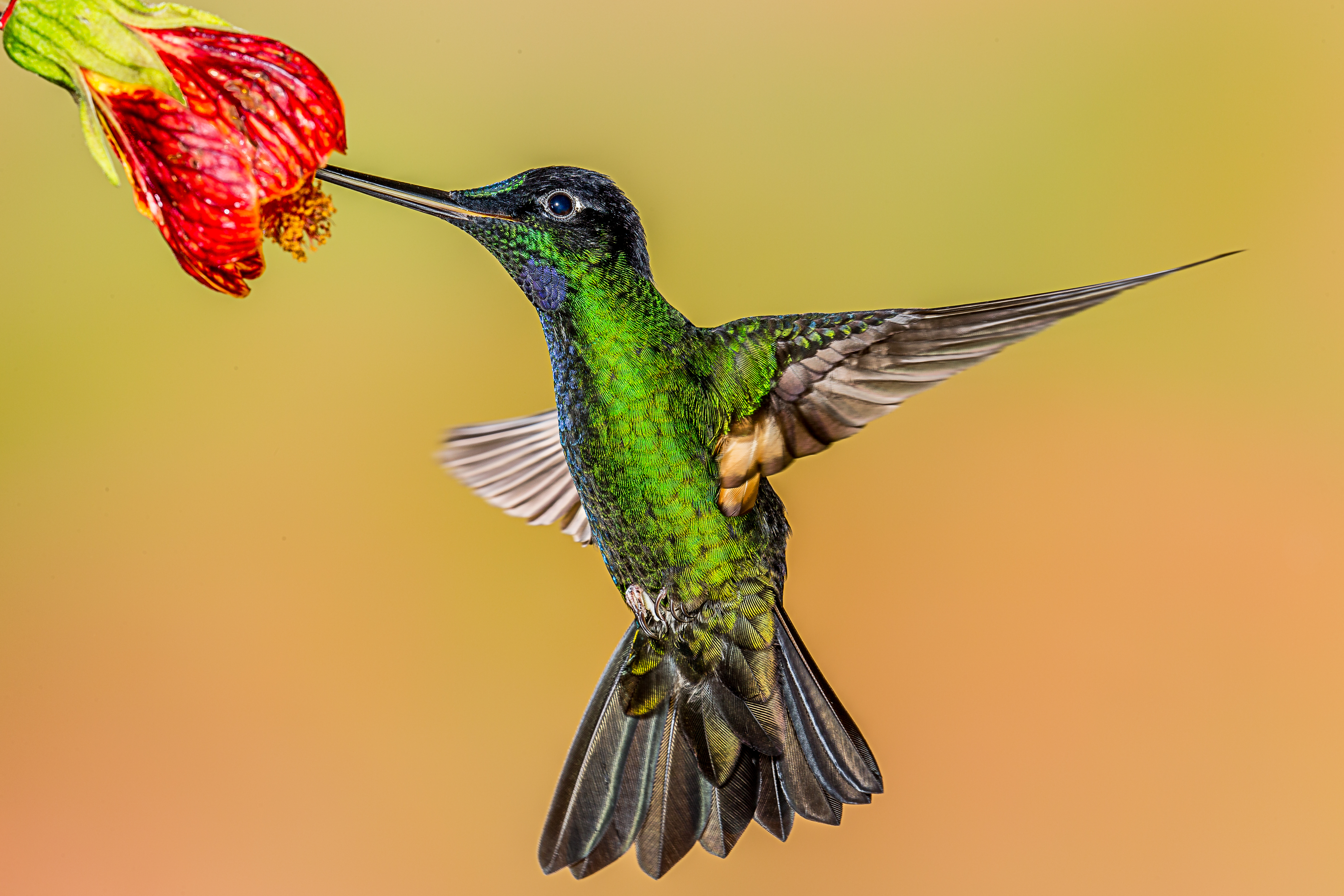 This hummingbird was photographed at Guango Lodge, Ecuador.